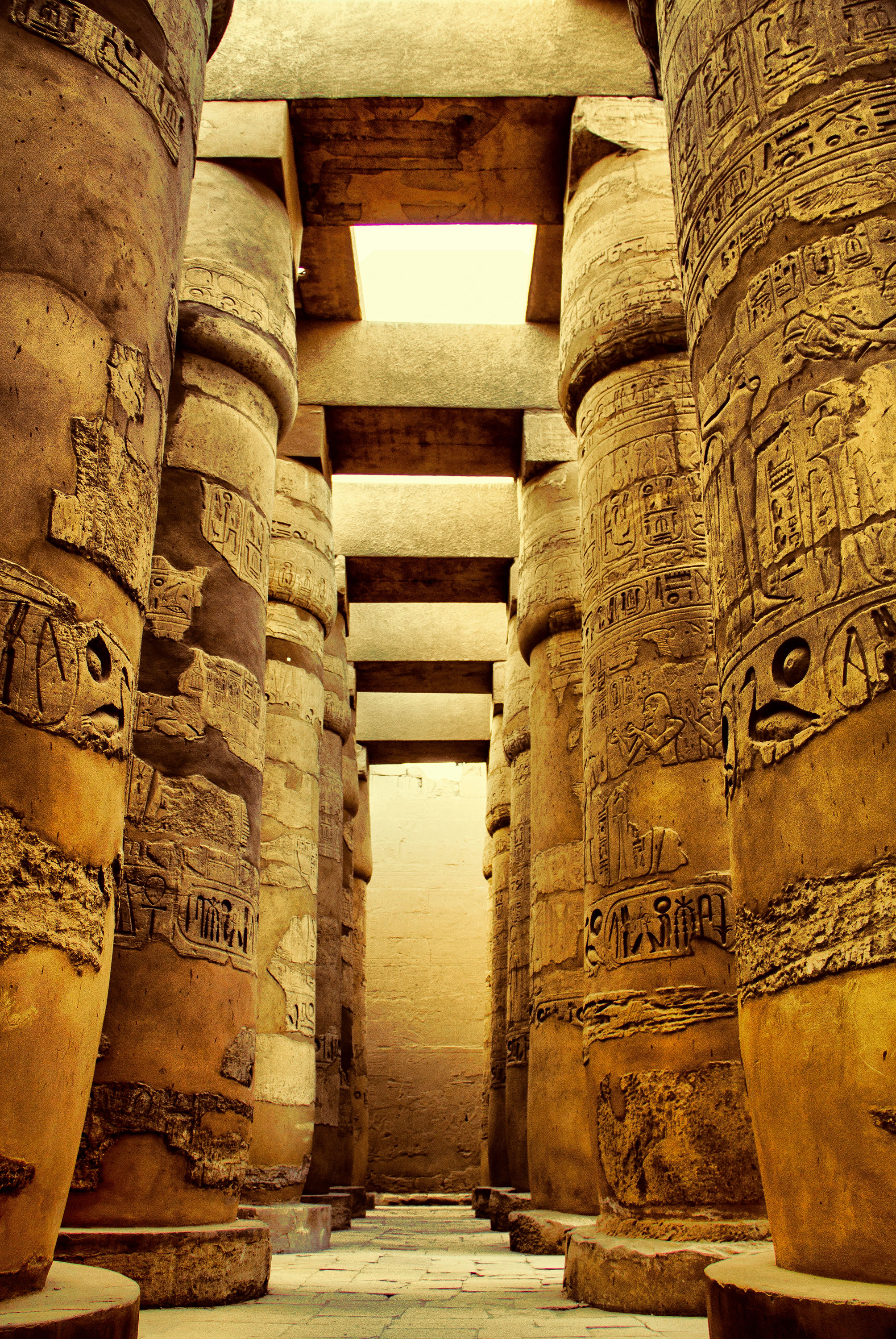 Karnak Temple of Luxor in Egypt markers characteristic , where he was the king of all kings of successive tries to make the most magnificent temple . To characterized by his predecessor so turned to the temples of Karnak complete guide and a variety show stages of the evolution of ancient Egyptian art and architecture Pharaonic distinctive .